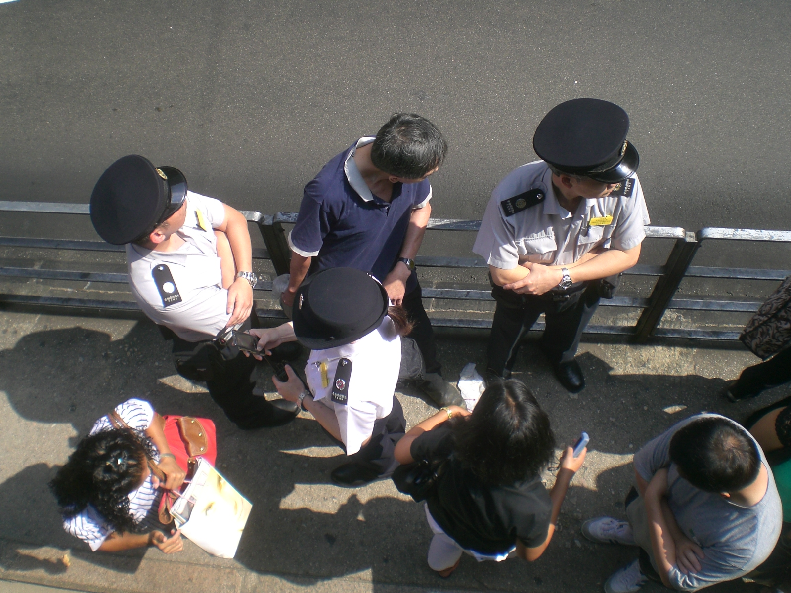 小販管理隊與zh:小販相遇之一刻